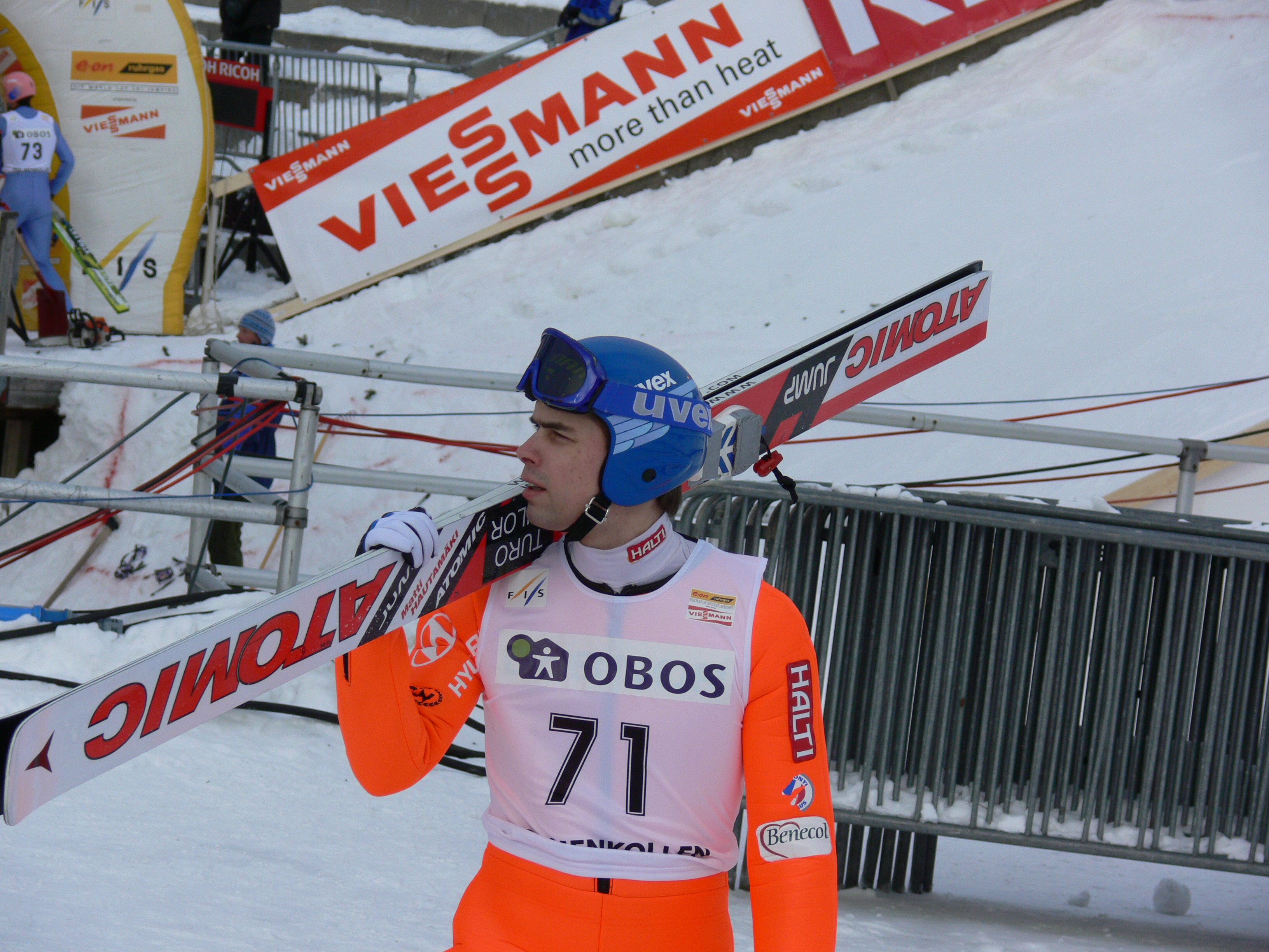 From the 2006 World Cup Ski Jumping event in Holmenkollen.